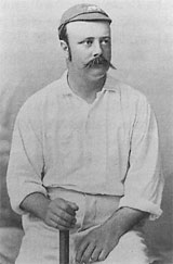 Billy Murdoch (1854-1911)